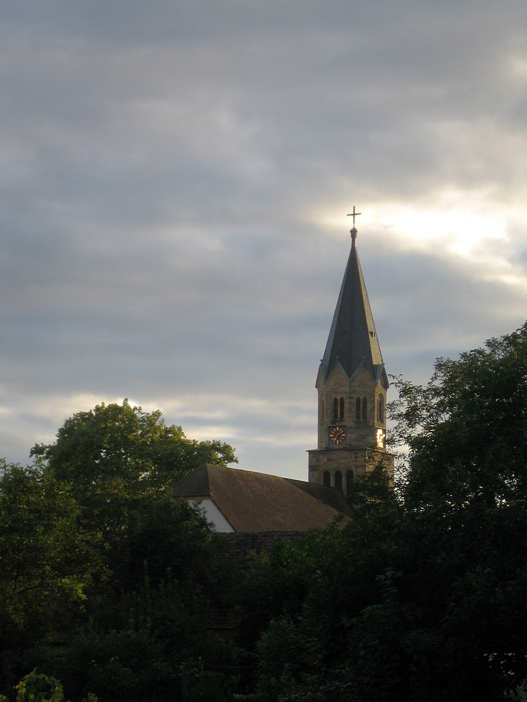 St. Maurice Catholic Church, Rülzheim, Rhineland-Palatinate